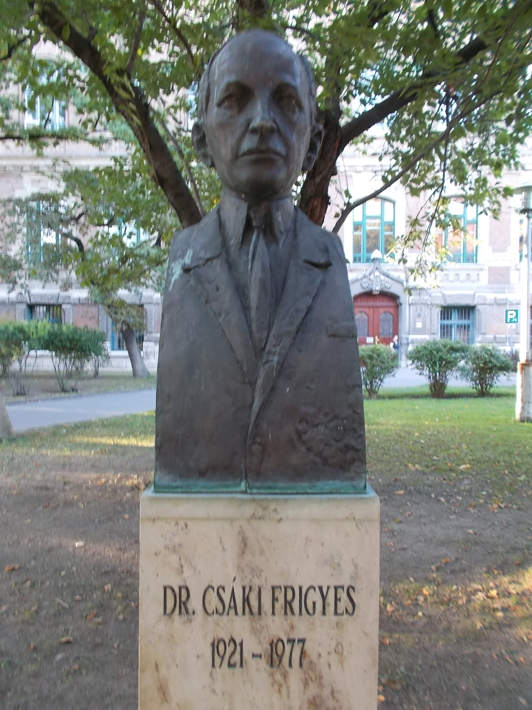 Bust of Frigyes Csáky by Ivan Paulkovics at the Budapest University of Technology and Economics - Lágymányos neighborhood, Budapest District XI. Hungary.